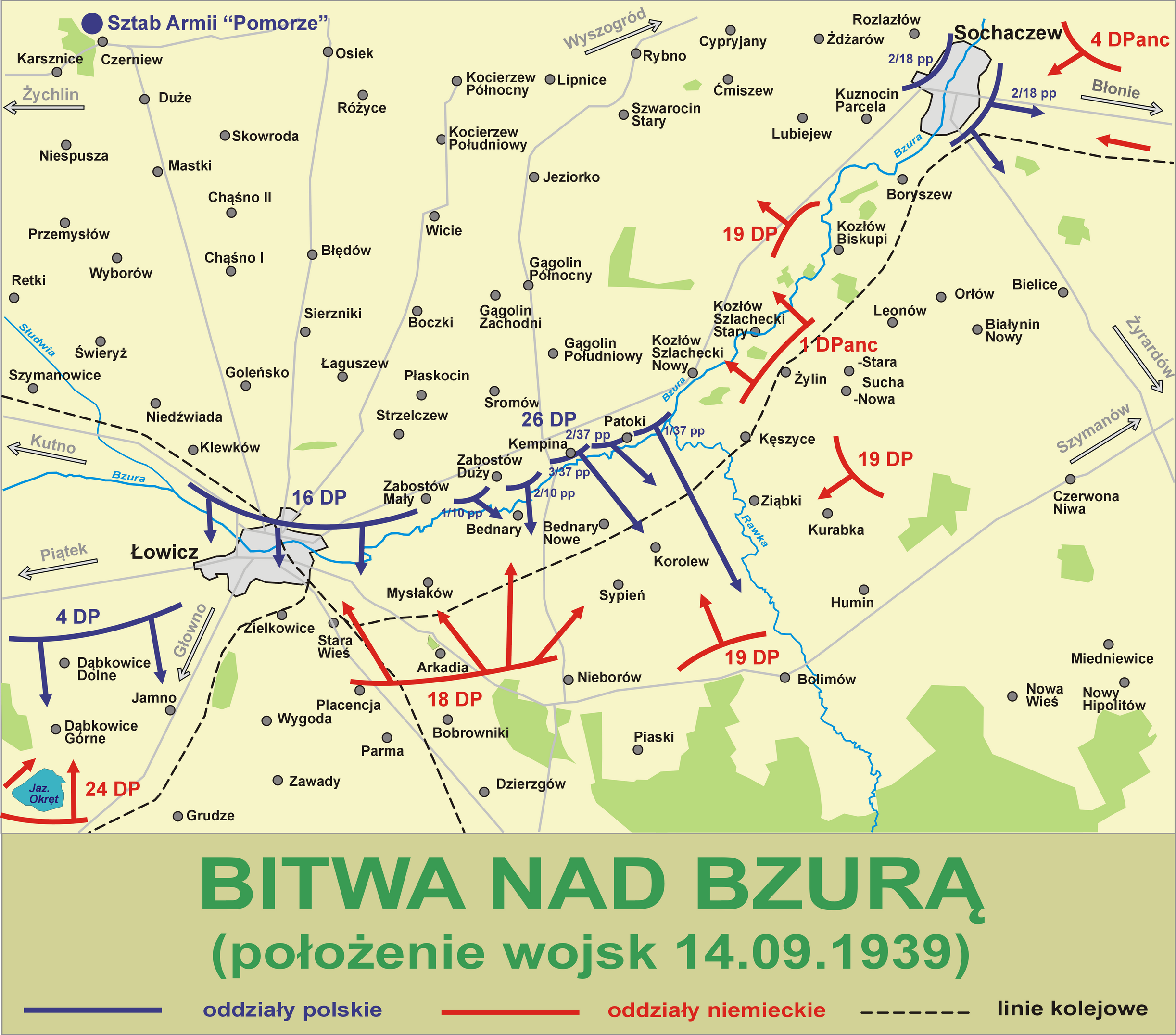 Battle of the Bzura (1939-14-09)